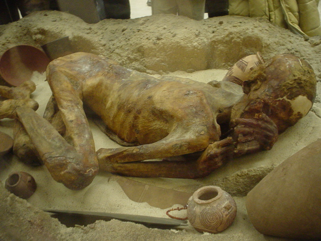 A mummified body of an Pre-dynastic Egyptian man in the British Museum. British Museum Native nameBritish MuseumLocationLondonCoordinates51° 31′ 10″ N, 0° 07′ 37″ W Established1753Website control VIAF: 155502113 LCCN: n79107735 GND: 4074329-9 BnF: cb11871460b ULAN: 500125180 WorldCat